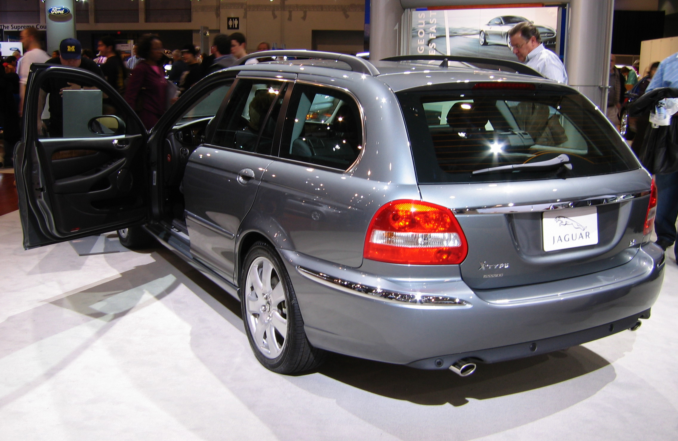 Photo by User:AudeVivere, taken at the 2006 Washington Auto Show.